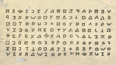 Cipher from Zodiac Killer letter, San Francisco Chronicle, July 31st 1969